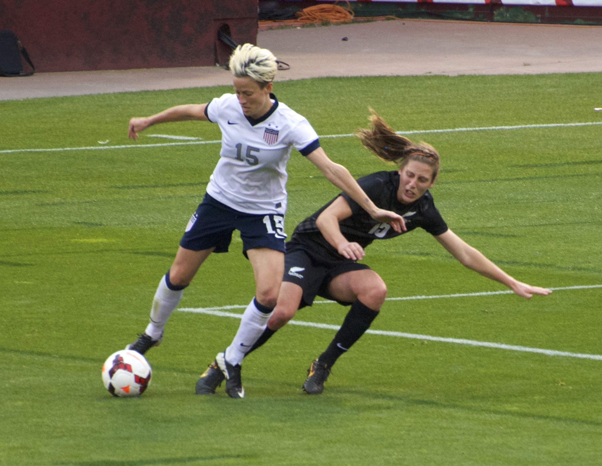 Megan Rapinoe, Candlestick Park, 27 October 2013, USA vs New Zealand friendly